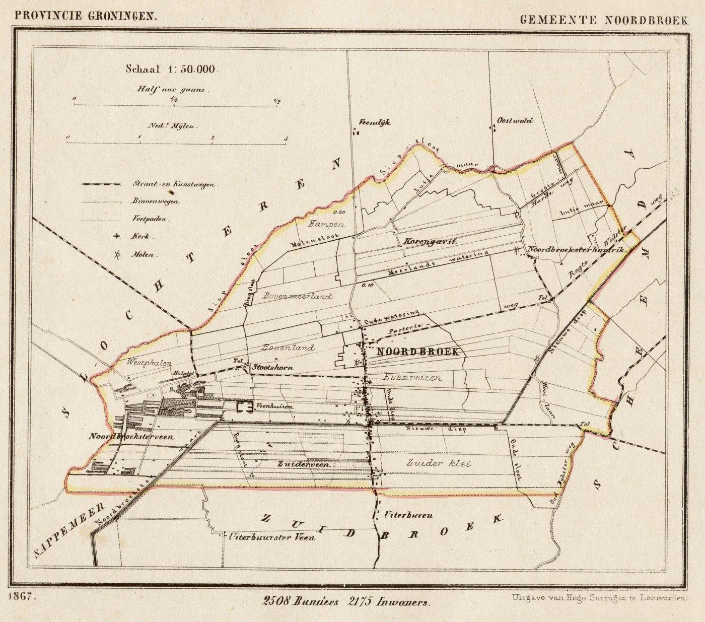 Map from 1867 of the former municipality of Noordbroek (Province of Groningen, Netherlands). Noordbroek remained an independent municipality until 1965 and included the hamlets of Hamrik and Stootshoorn. That year Noordbroek and neighbouring Zuidbroek joined to form the municipality of Oosterbroek, which in turn merged in 1989 with Muntendam and Meeden to form the present municipality of Menterwolde.